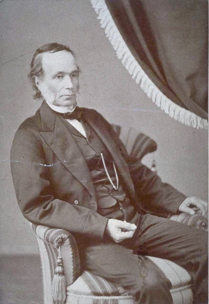 Henry Durant (1802-1875), founder of the University of California and later mayor of Oakland, California